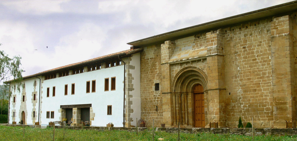 Ancient monastery of Zamartze, in Uharte-Arakil (Navarre, Spain). General view